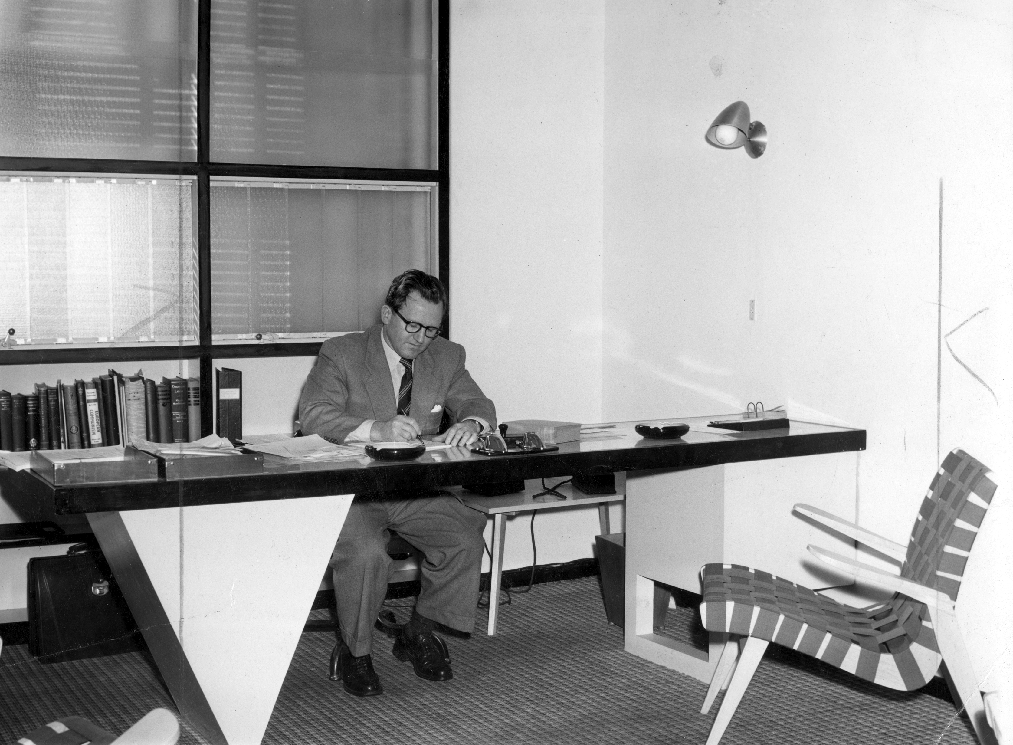 Photograph of Laurence "Laurie" Short, national secretary of the Federated Ironworkers Association of Australia from 1951-1982, sitting at a desk in his office.